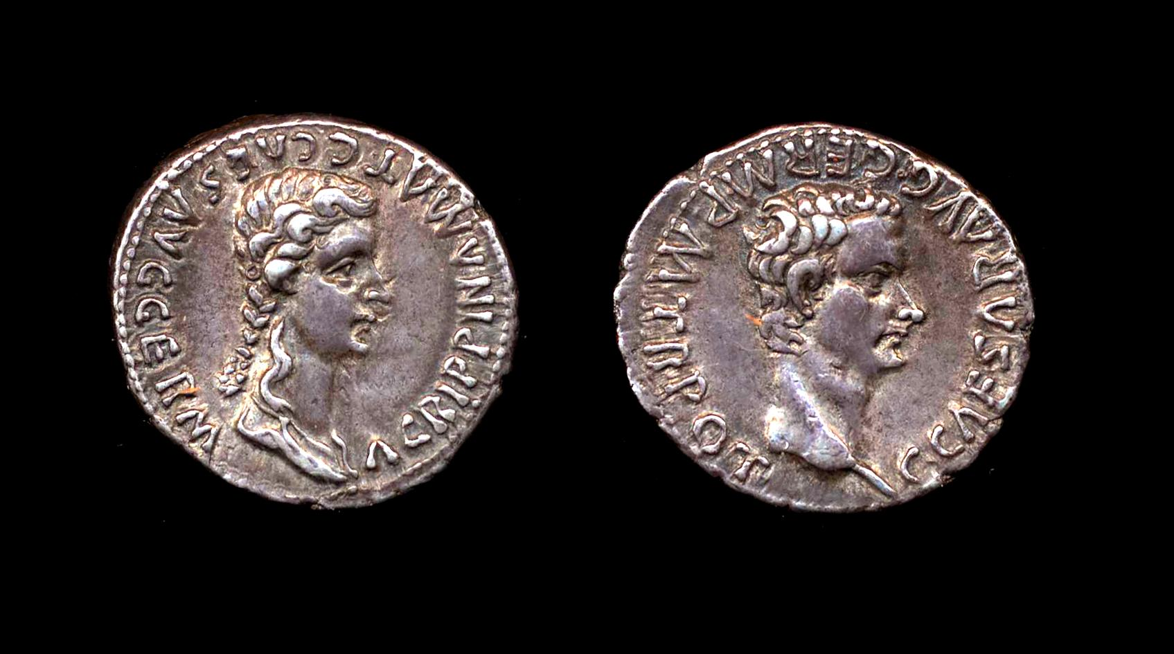 Caligula & Agrippina I, R6309, BMC 8 This was added from the site called under the name portableantiquities. See source for details.